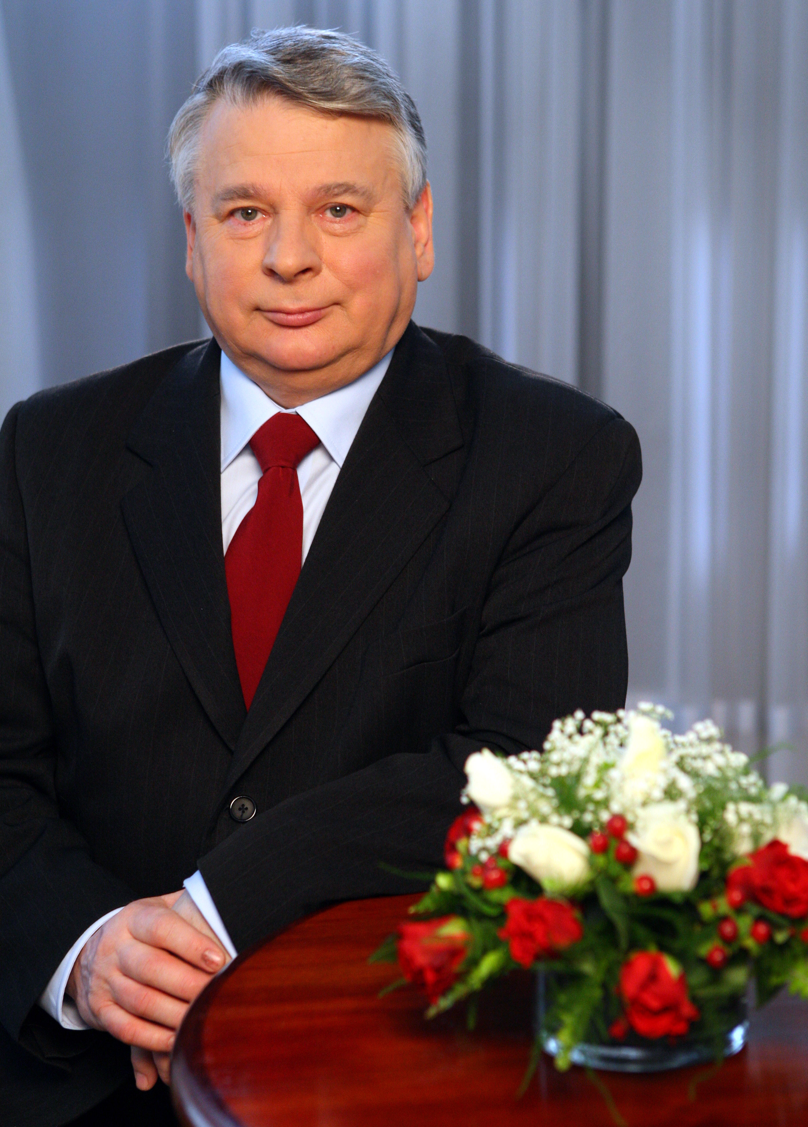 Marshal of the Polish Senate Bogdan Borusewicz